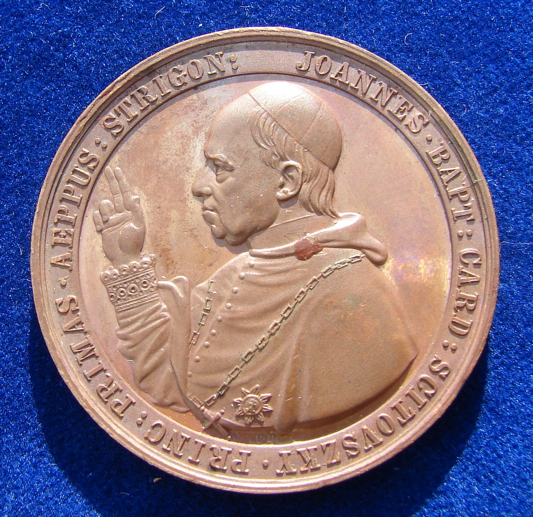 Cu- Medallion, d.= 45 mm. Scitovszky, Johann Baptist, Cardinal, 1785 Košická Belá, Kingdom of Hungary, (today Slovakia) - 1866 Esztergom, Hungary. Portrait l, surrounding: "JOHANNES BAPT: CARD: SCITOVSZKY PRINC: PRIMAS AEPPUS: STRIGON:"/ The sun above altar, surrounding: "SEMISÆCULO SACERDOS VI. NOVEMBRIS MDCCCIX". Wurzbach 8377. Medallist: C. R. (Carl Radnitzky), Sculptor, 1818 Wien - 1901 Vienna, Austria. Condition: EXTREMELY FINE.